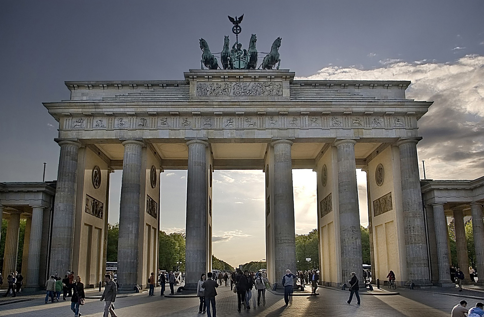 Brandenburg Gate